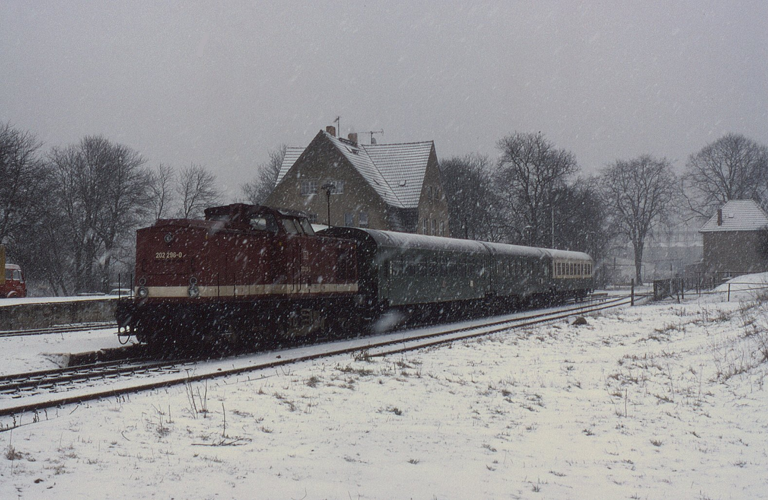 Taken during a snowfall on 28 January 1995, 202.296 has ran round its train of 3 coaches and is awaiting departure on train 15910, 10:03 Feldberg (Meckl) to Neustrelitz Süd.This line closed to passenger traffic in May 2000.